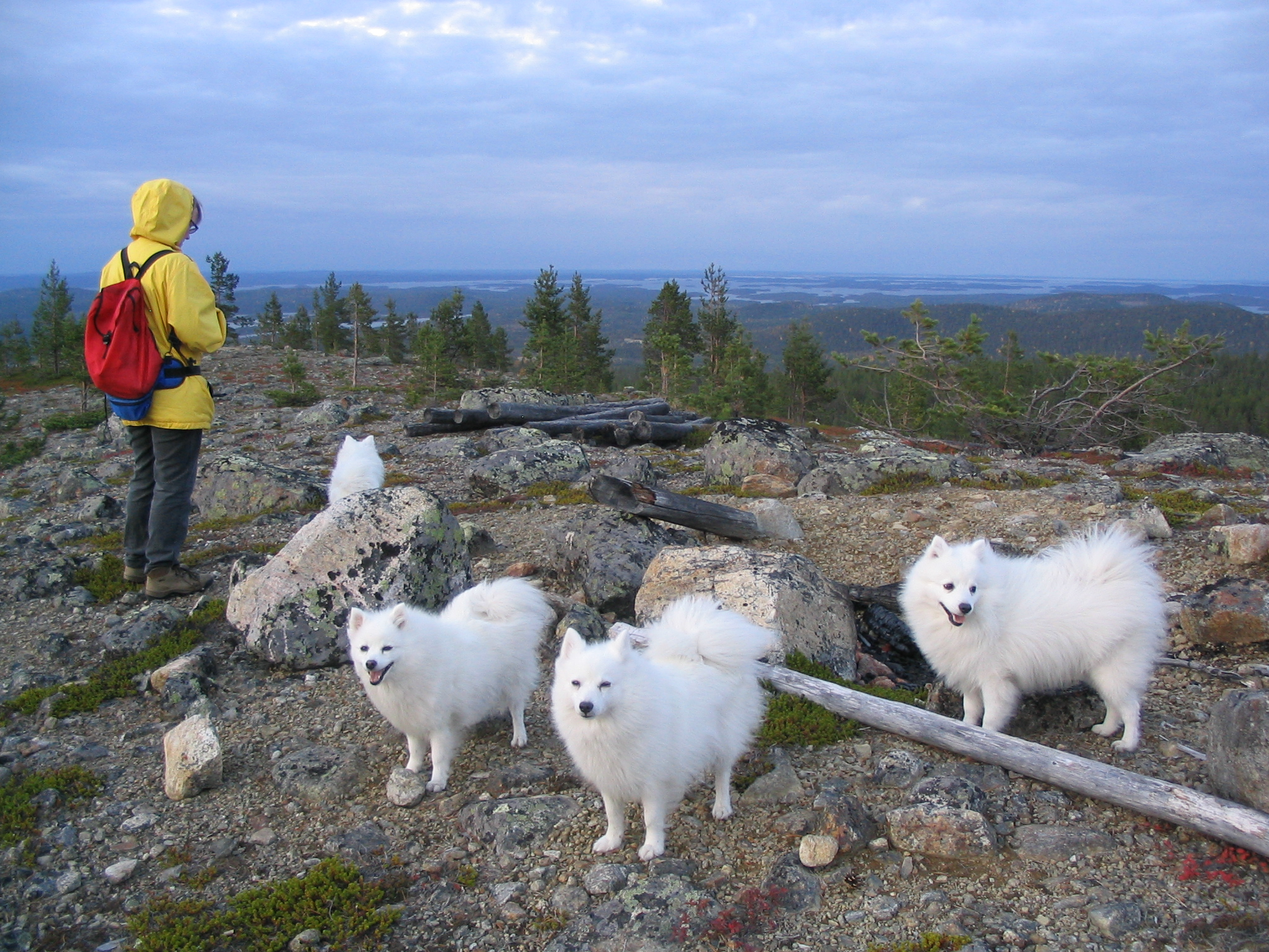 in the mountain of Japanise Spitz, Inari, Finland.